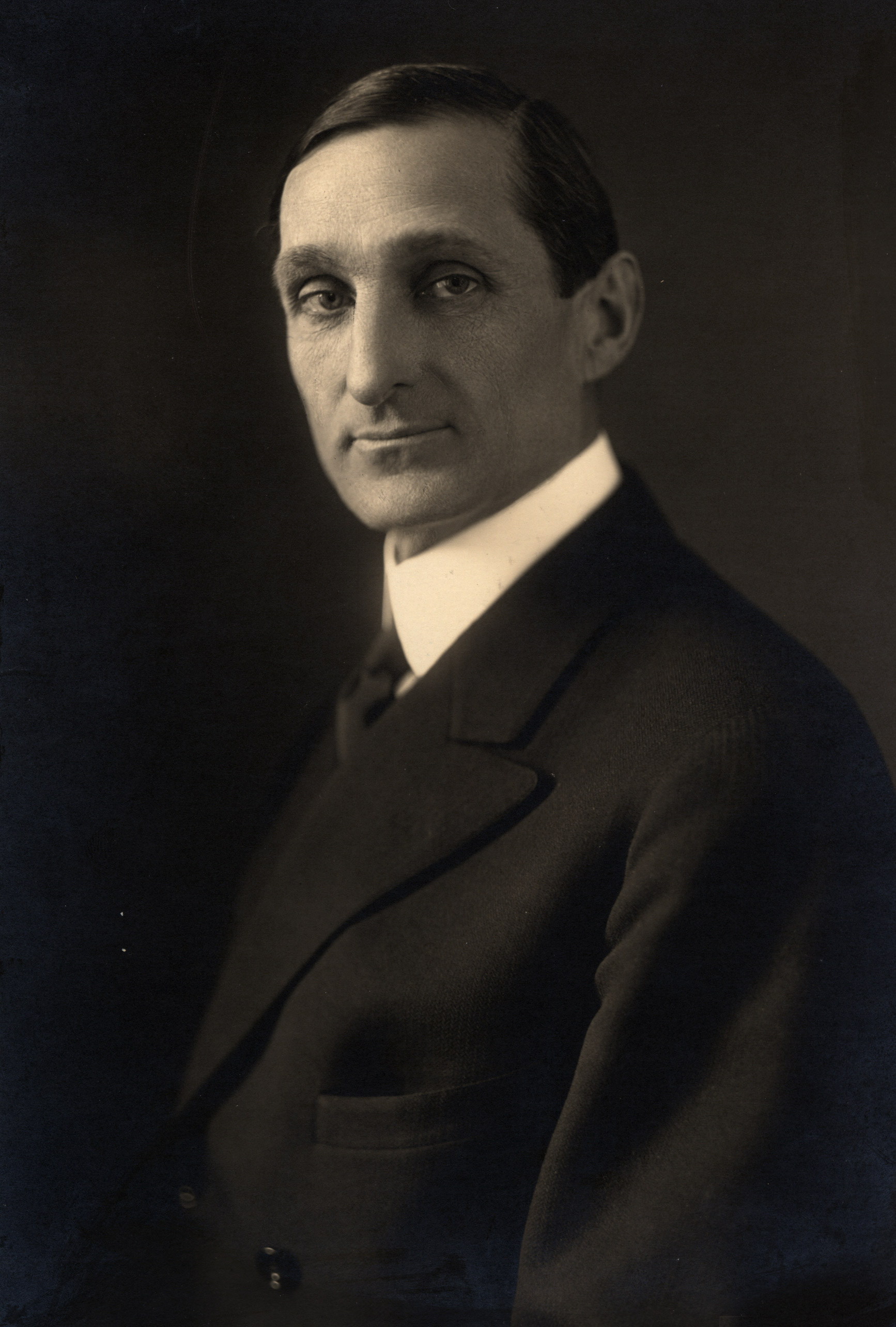 William Gibbs McAdoo, formal portrait. Secretary of the Treasury of the United States.